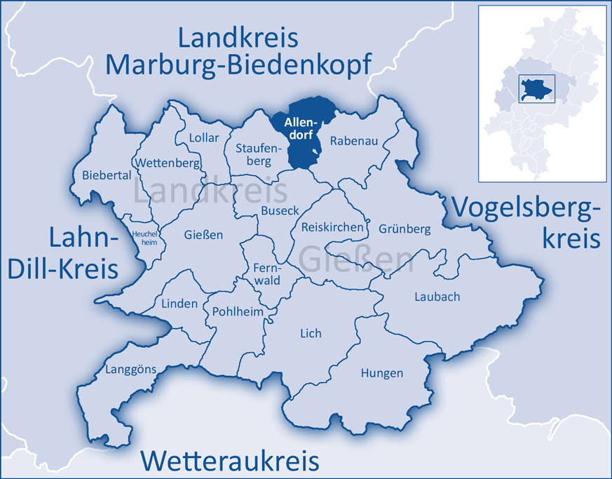 The map shows a district in the area of Gießen (district)